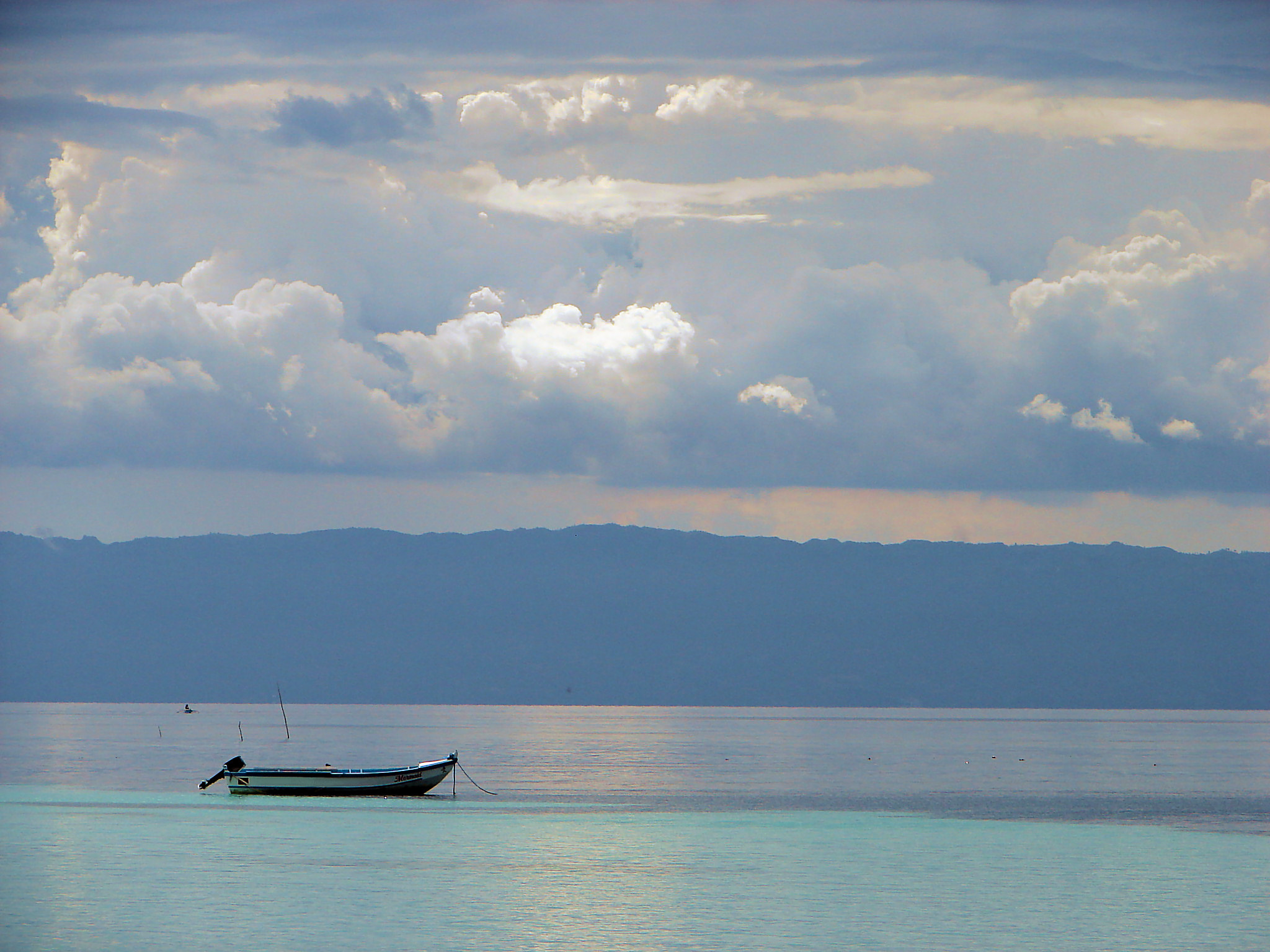 Cebu Island as seen across the Cebu Strait